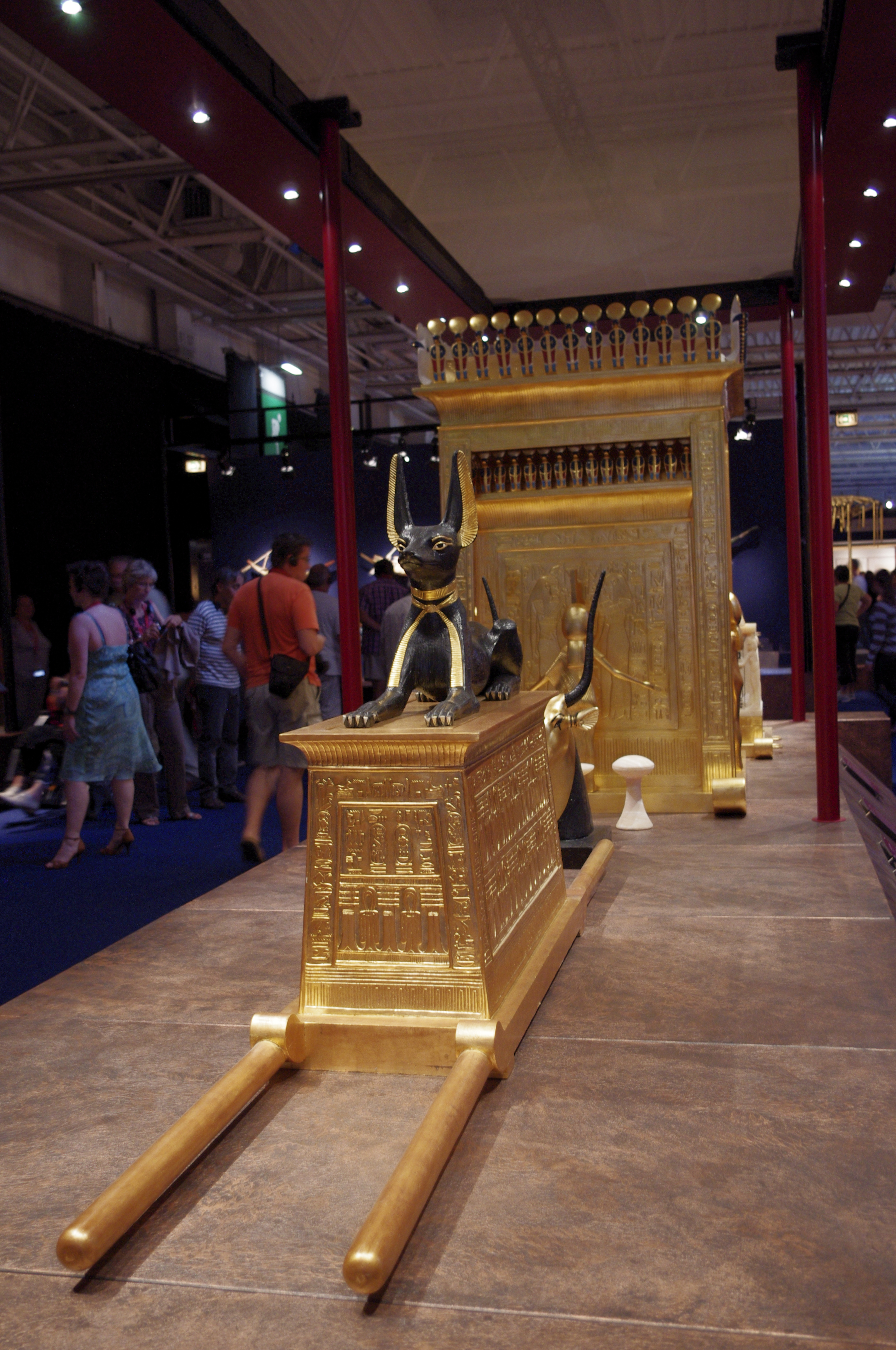 Treasure of Tutankhamun, exposition in Paris 2012. Porable shrine with Anubis figure.